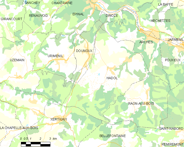 Map of French municipality Hadol